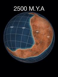 A reconstruction of what kenorland may have looked like